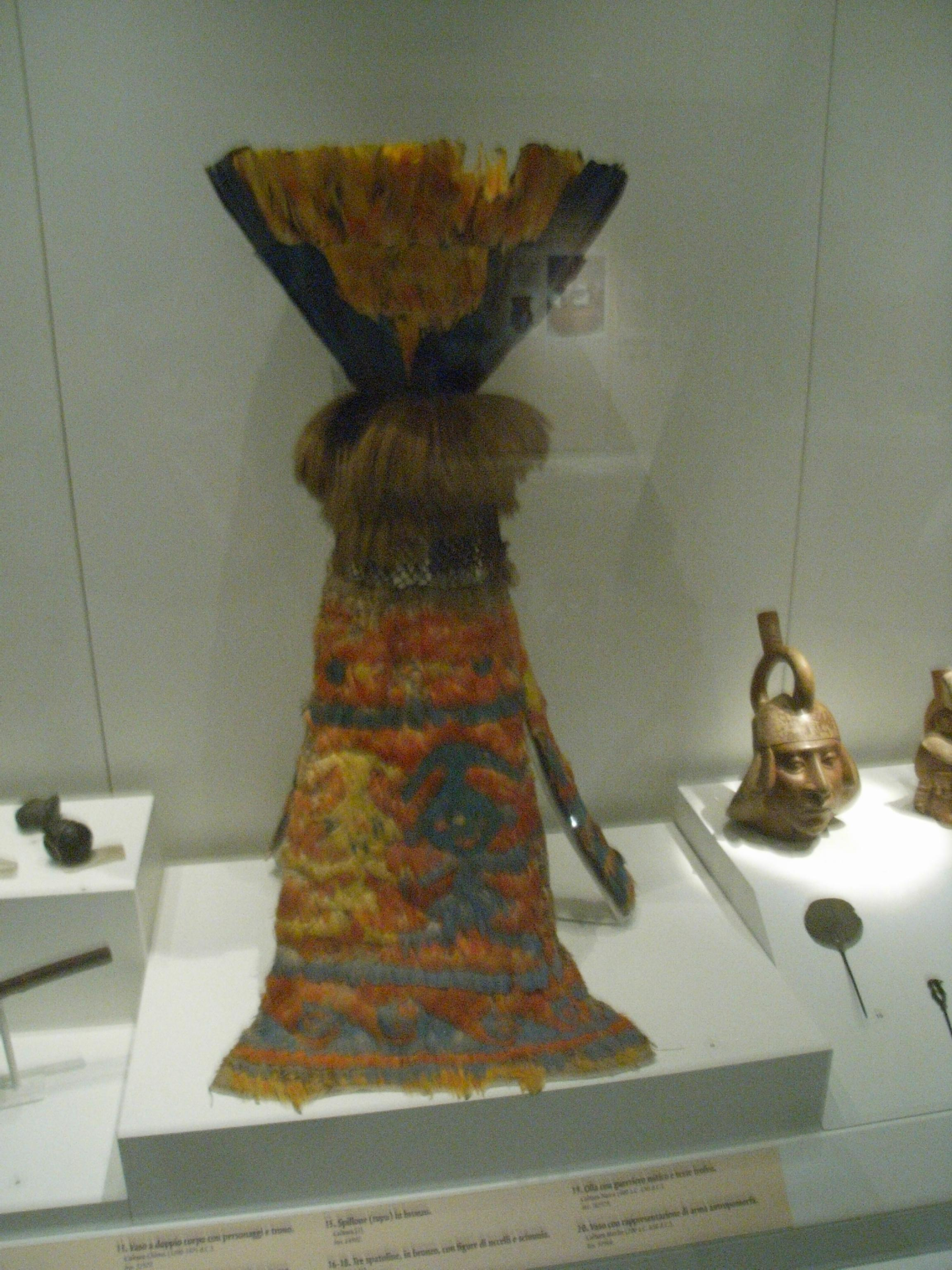 Pigorini National Museum of Prehistory and Ethnography South America case